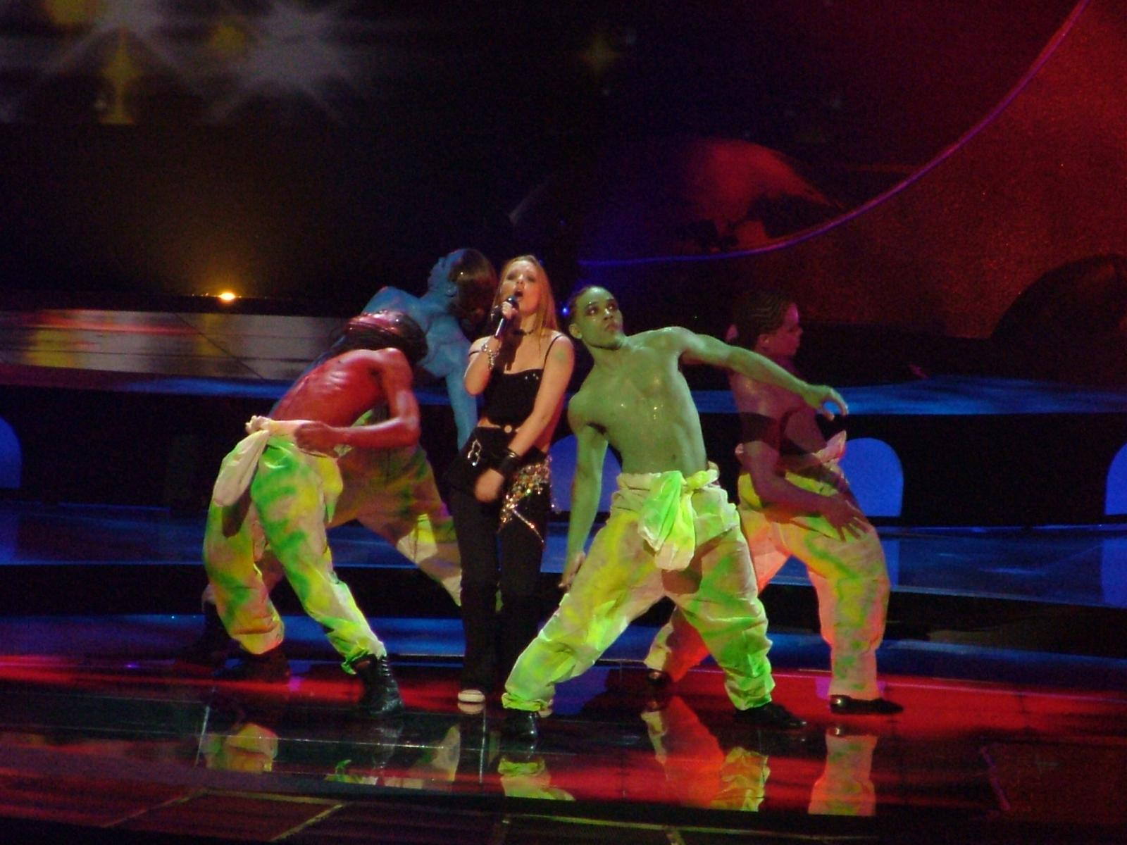 Julia Savicheva rehearsing her entry "Believe Me" at the rehearsals for the Eurovision Song Contest 2004.